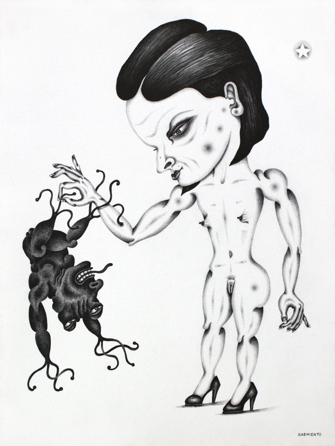 Eduardo Sarmiento, Provocando el Deseo. Pencil on Arches paper, 12x16 in. 2012